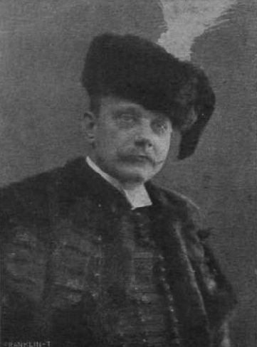 Portrait of Dezső Malonyai